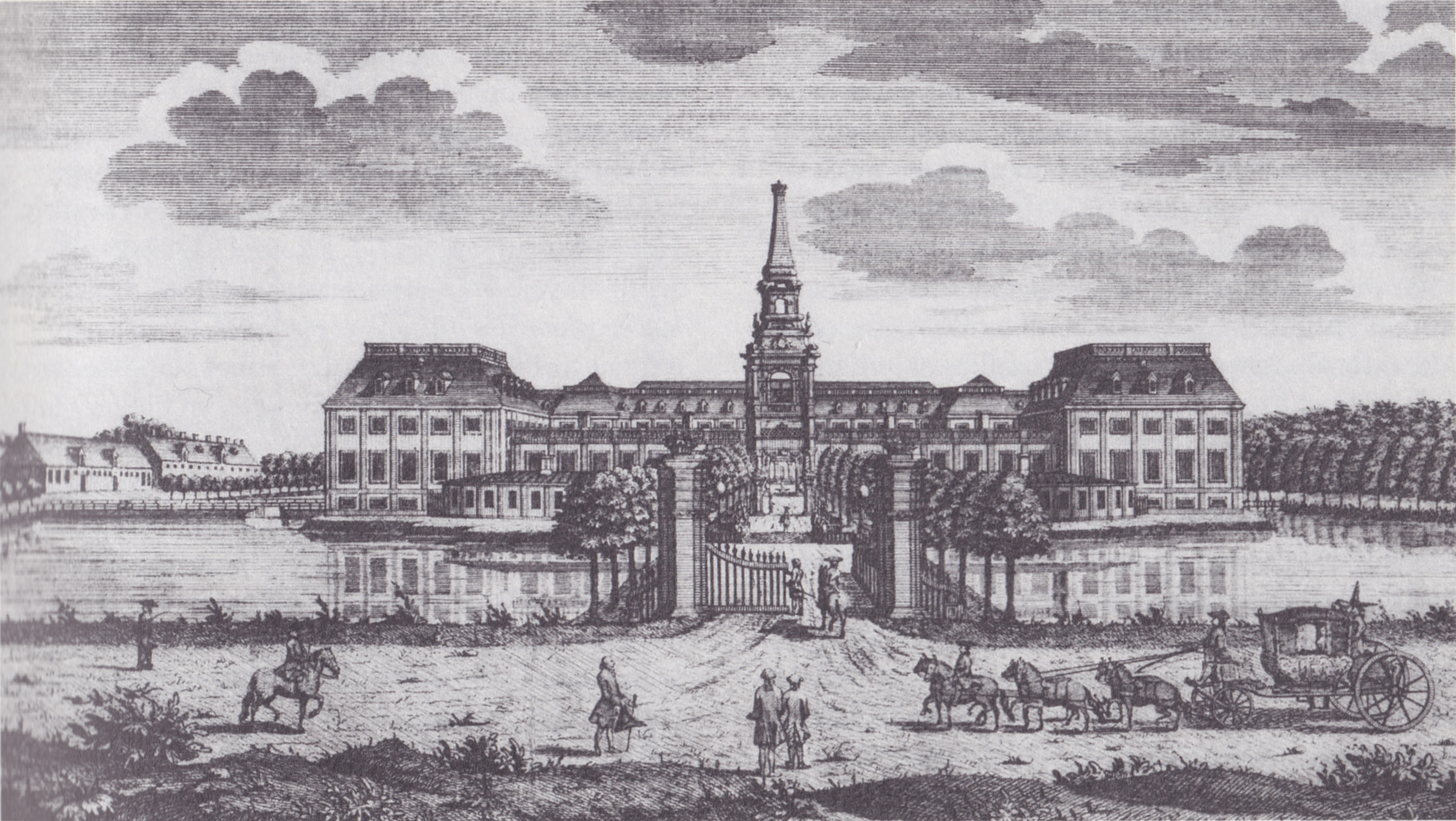 Hirschholm Castle. Etching by Johan Jacob Bruun, 1755.